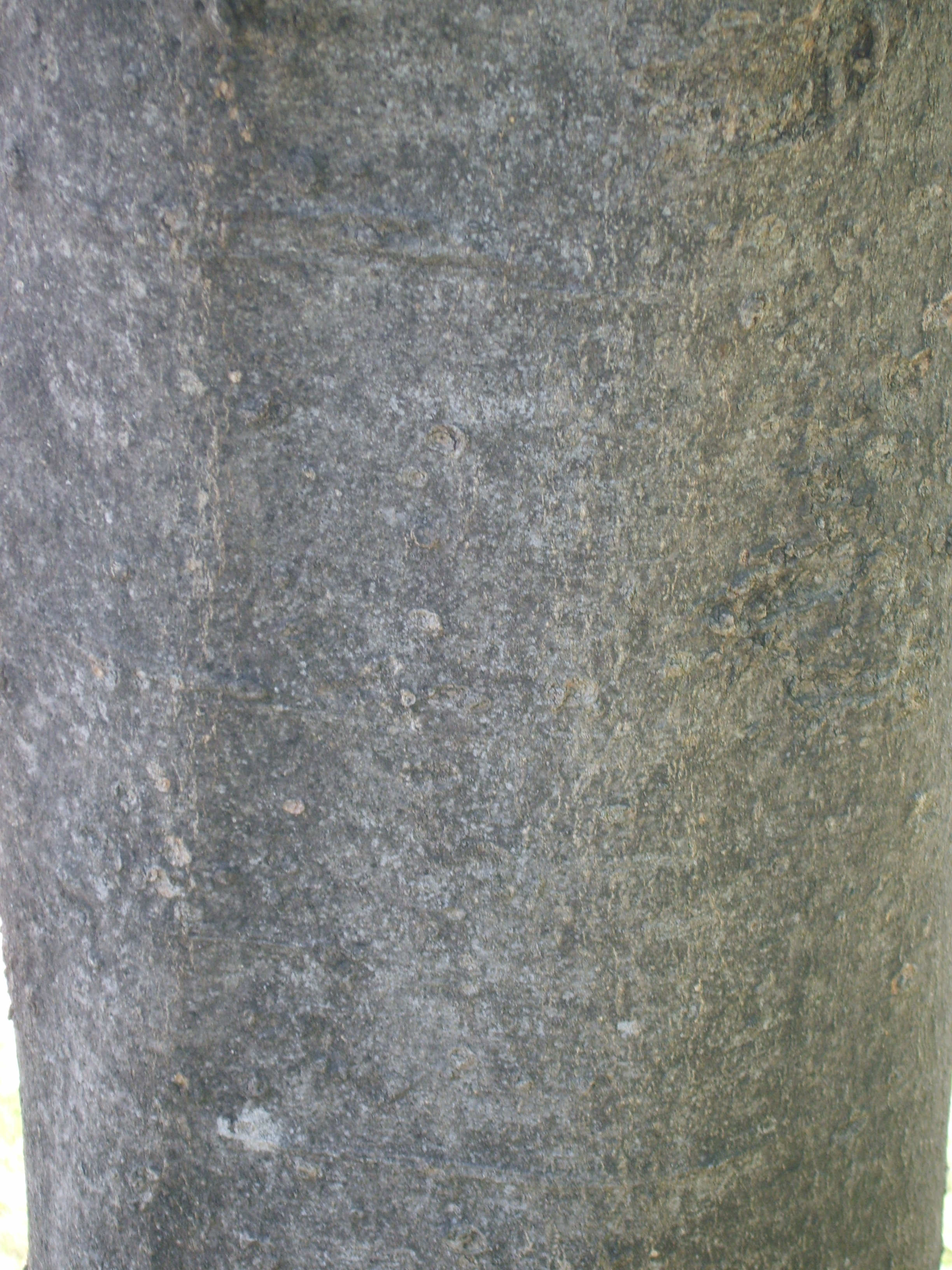 Celtis sinensis's bark in Incheon Korea. 인천대공원에 사는 팽나무 줄기